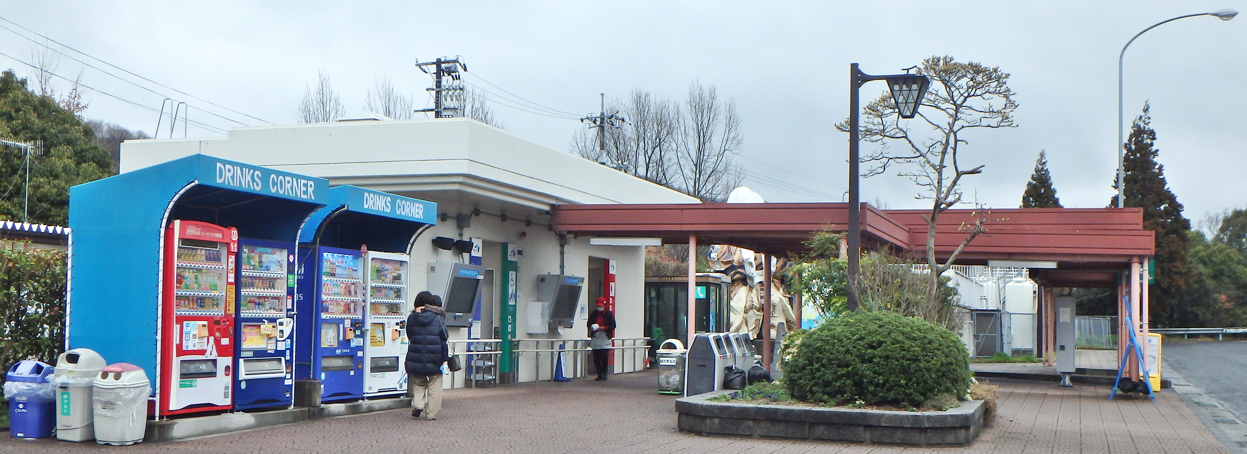 Shinosaka Parking Area for Kobe,Okayama prefecture,Japan